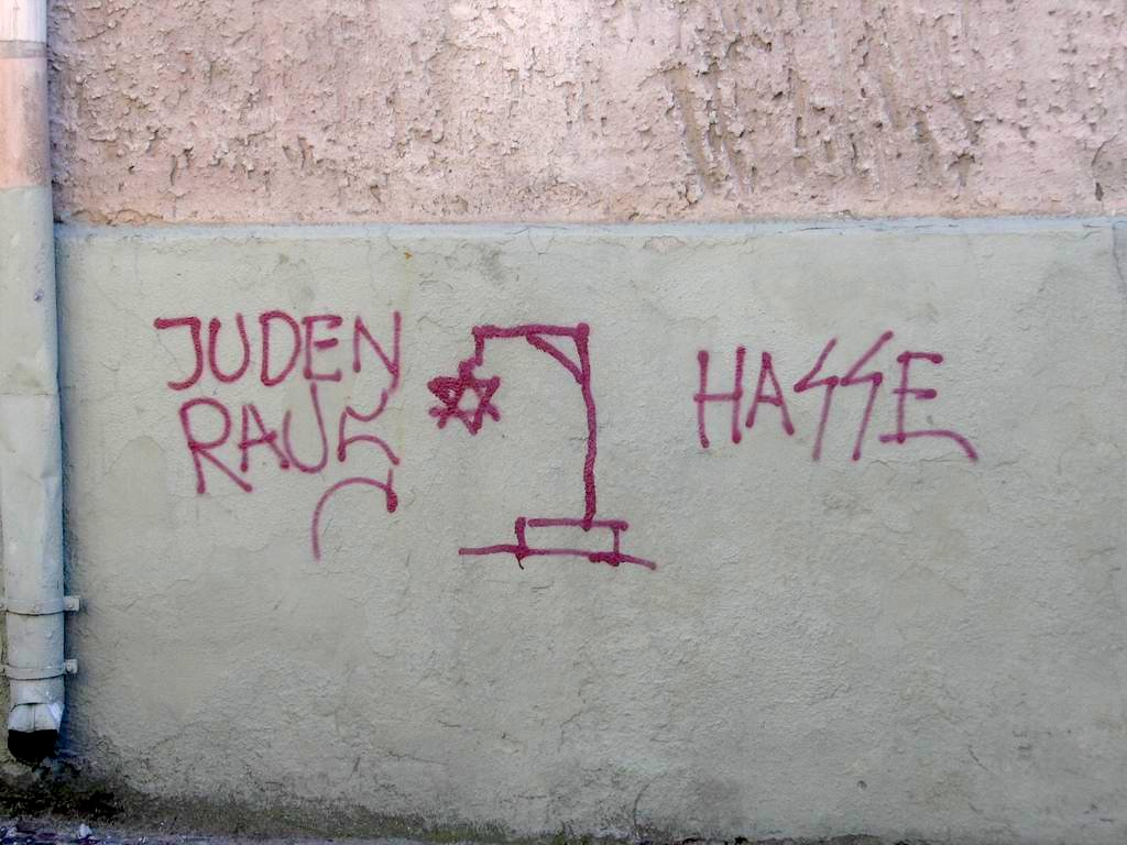 Antisemitic graffiti in Klaipėda, Lithuania